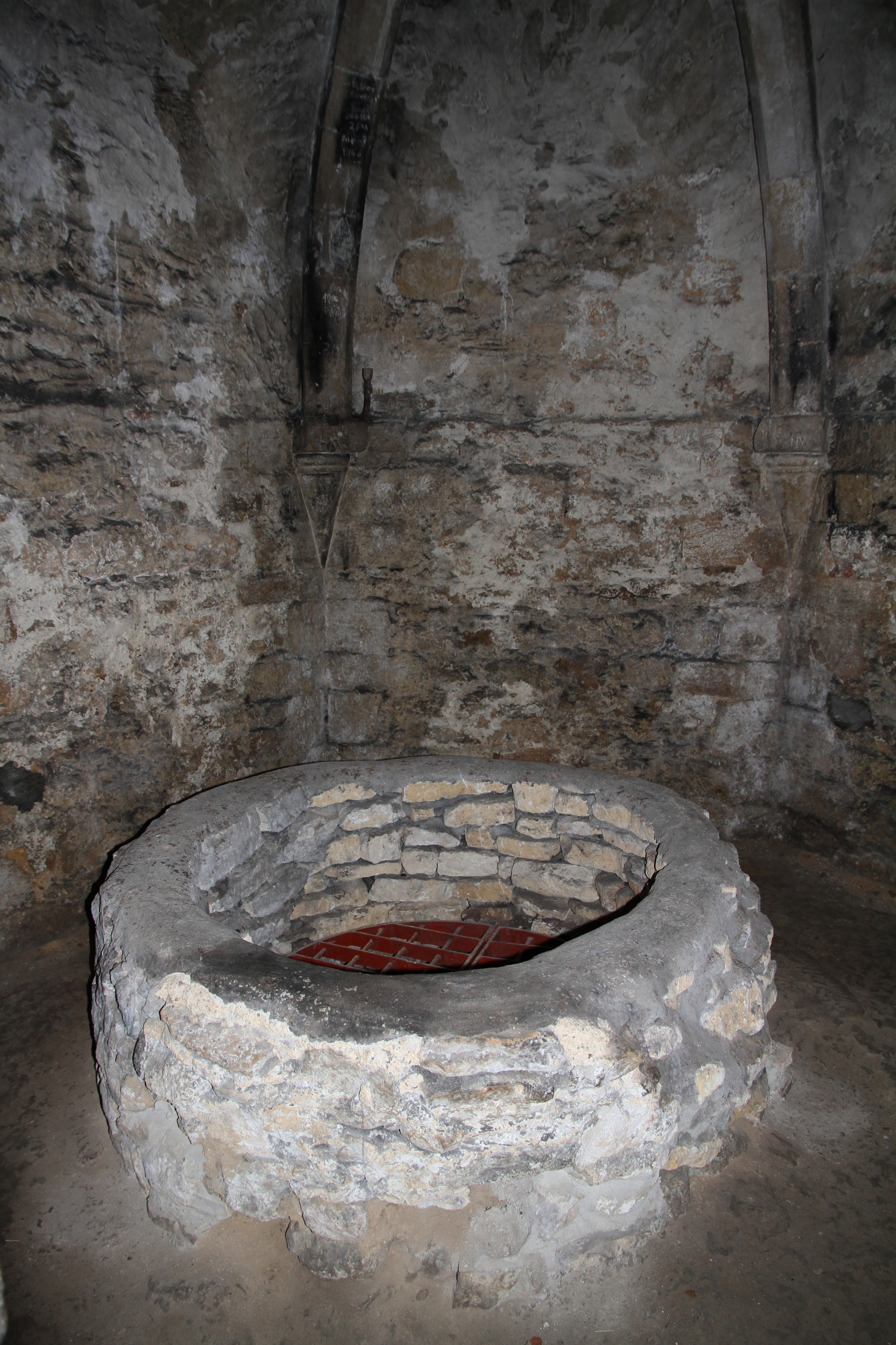 Oxford Castle, England: 13th-century well inside the 11th-century motte